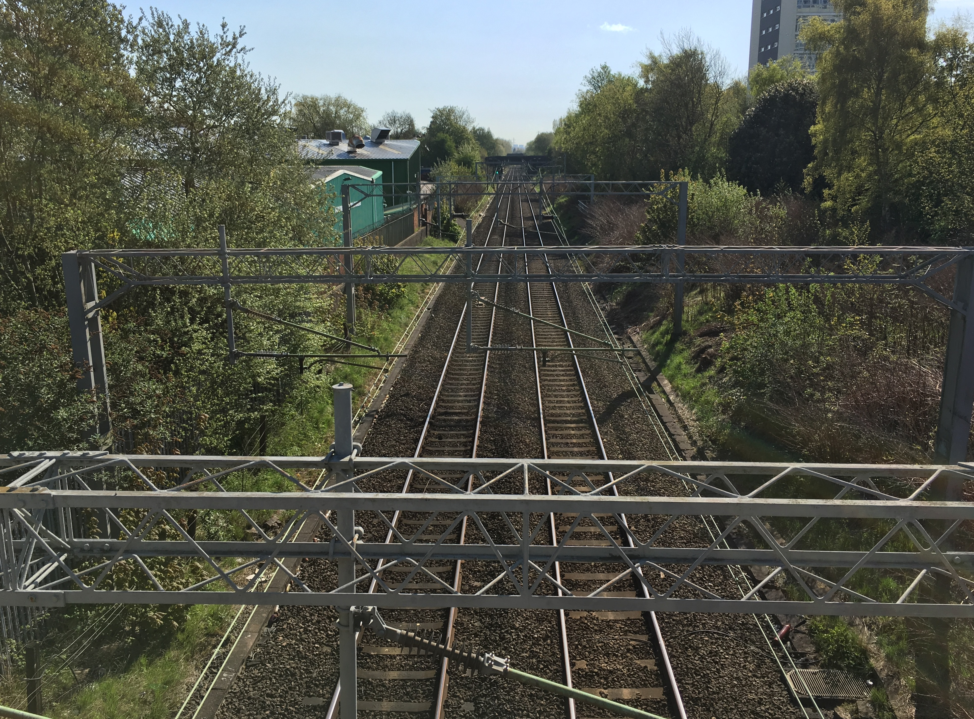 Site of the former Willenhall Bilston Street Station